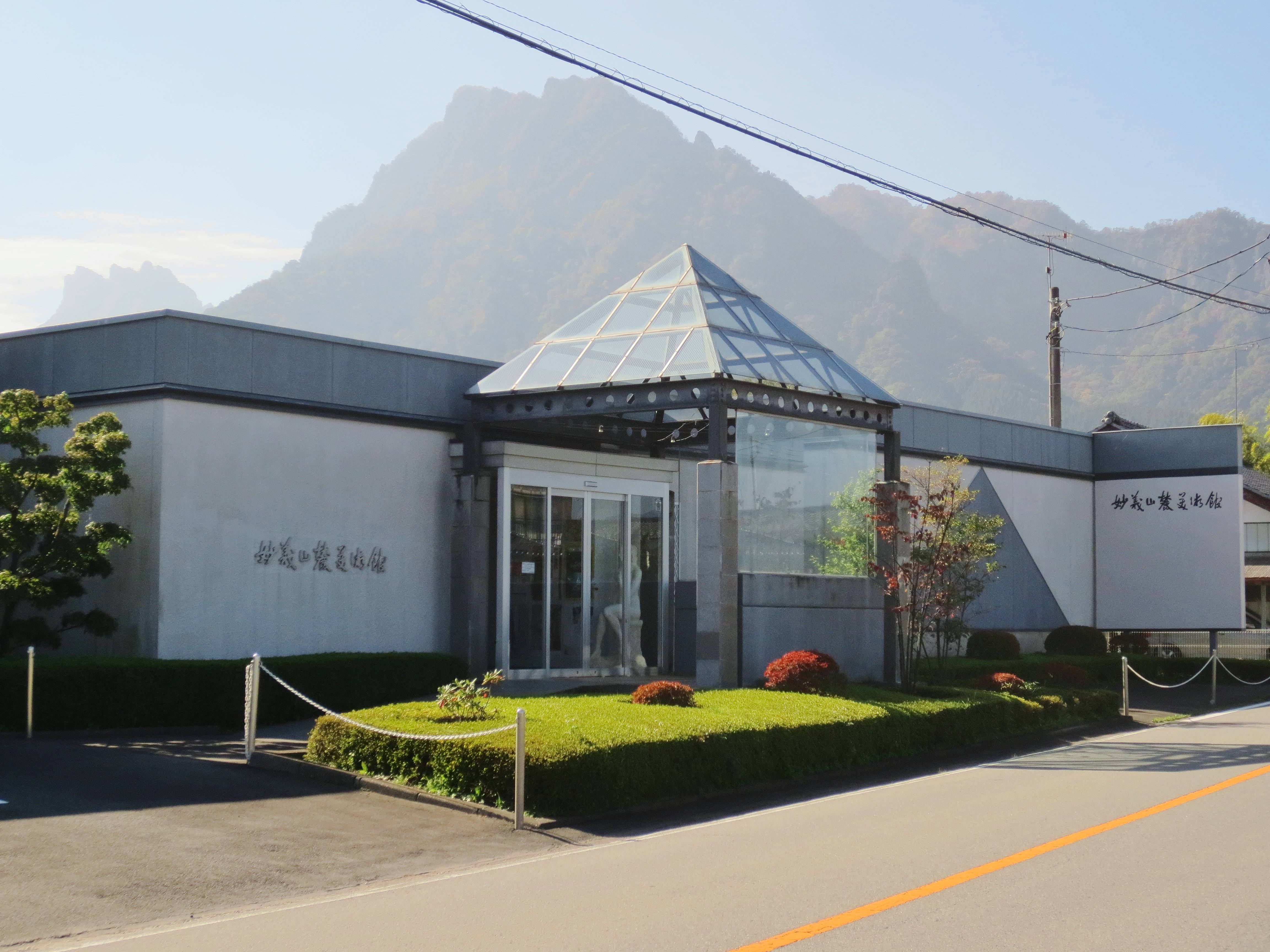 Myogi Sanroku Art Museum.